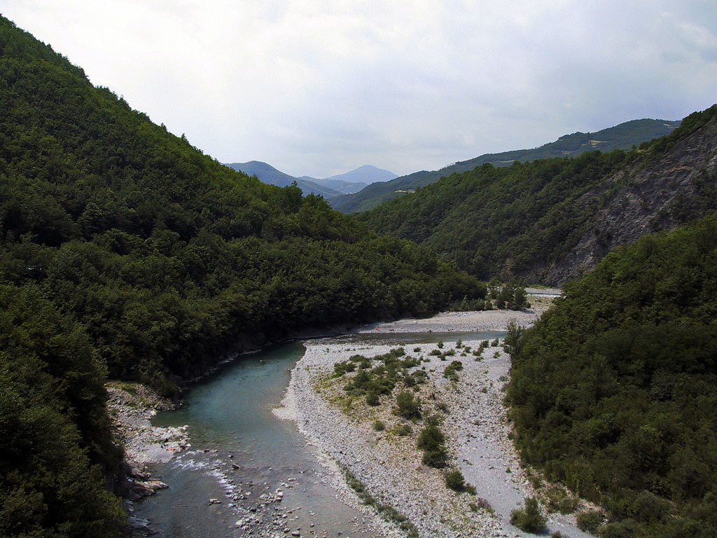 The Valle Trebbia, Italy. Photograph taken in July 2006 looking upstream from a location a few kilometres south of Bobbio. (This is a tweaked version of Image:Valle Trebbia.JPG)